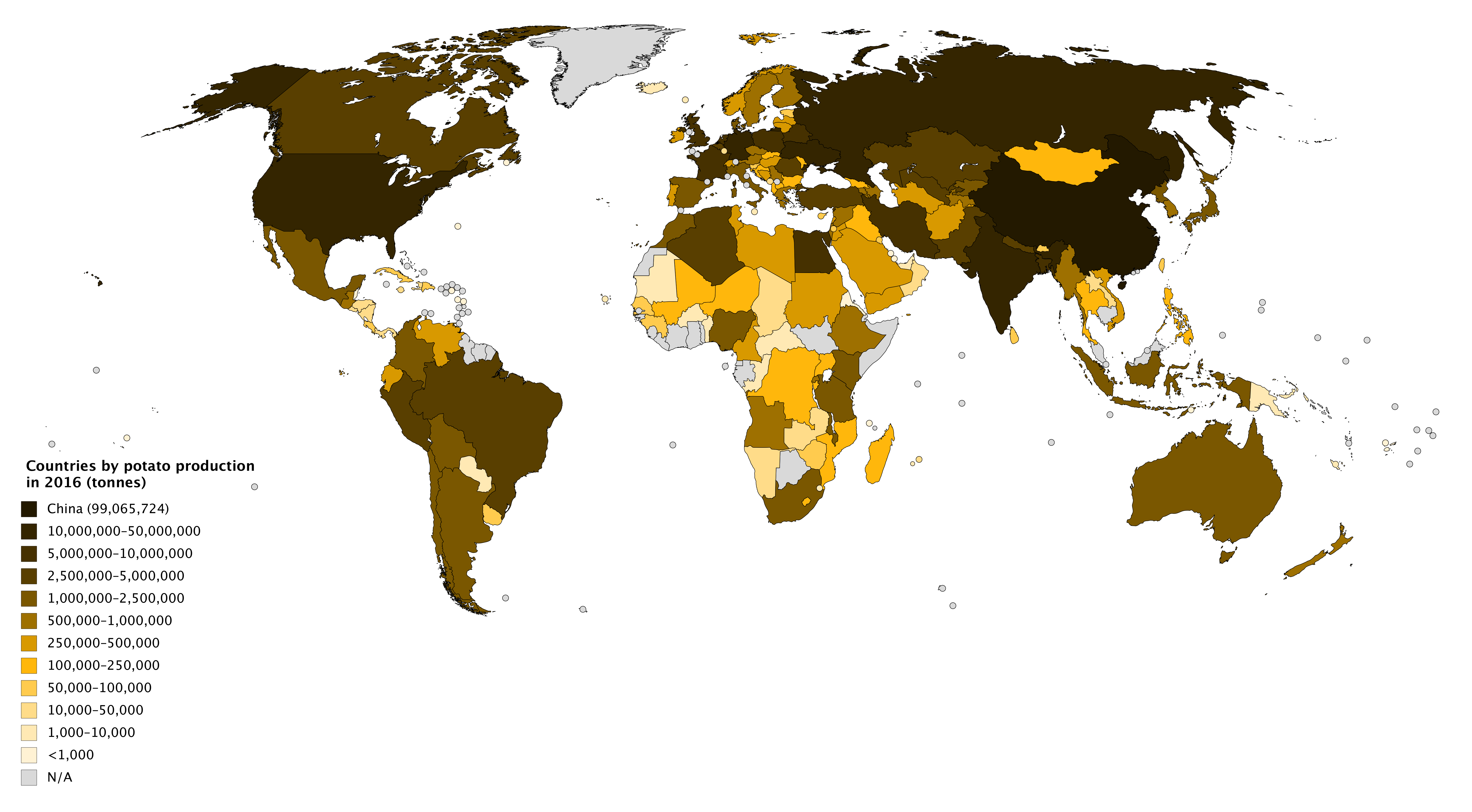 A choropleth map showing countries by potato production in tonnes, based on 2016 data from the Food and Agriculture Organization Corporate Statistical Database (FAOSTAT).